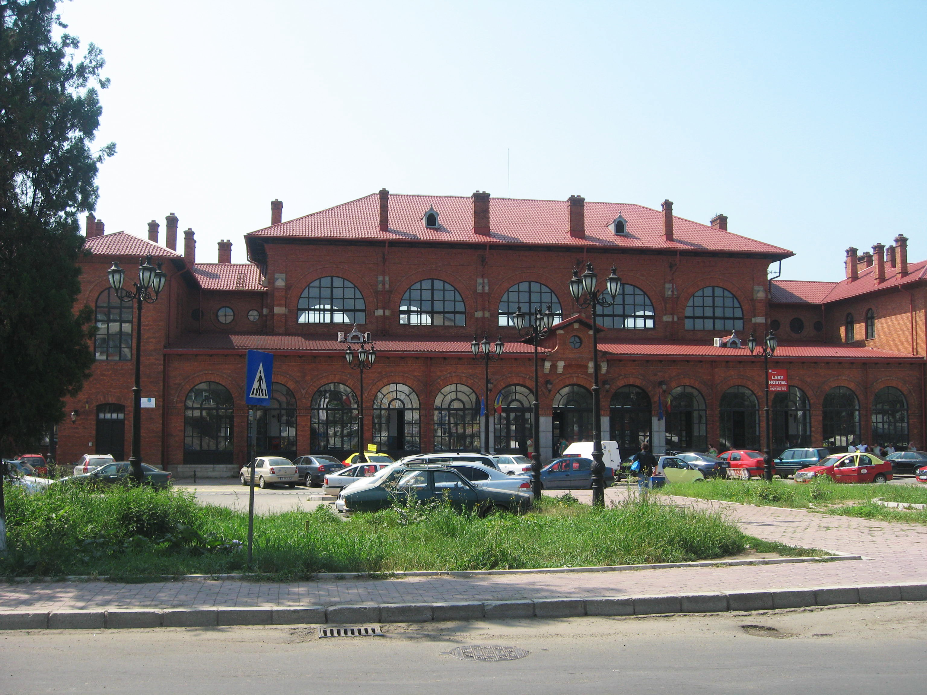 Suceava (Burdujeni) train station.